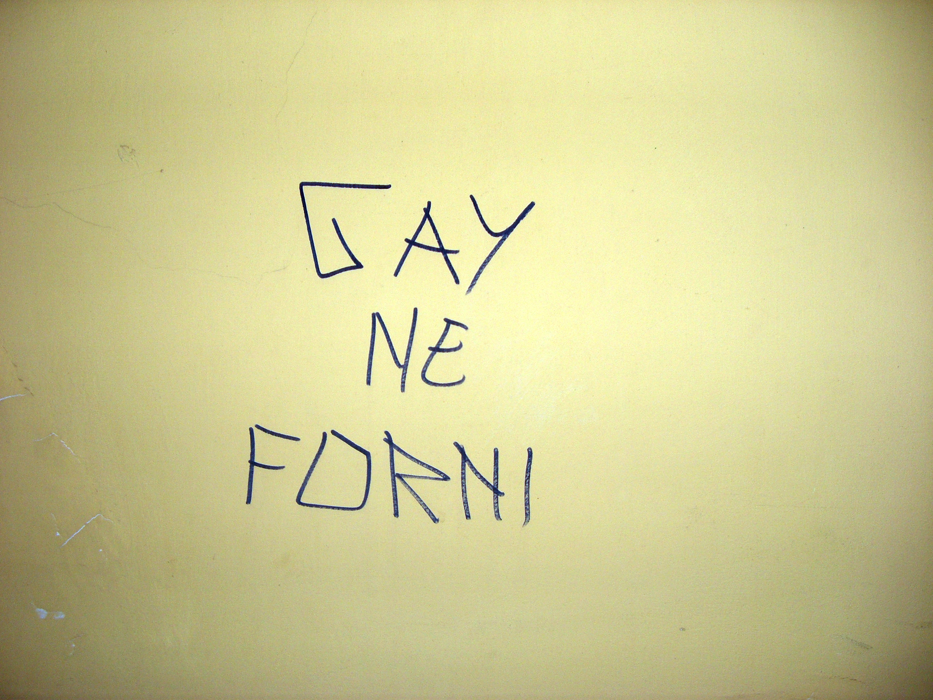 Homophobic slur (GAYS TO THE CREMATORIUM" in via San Giovanni in Laterano in Rome, Italy, which is the so-called "gay street" of Rome. Picture by Giovanni Dall'Orto, september 2008.